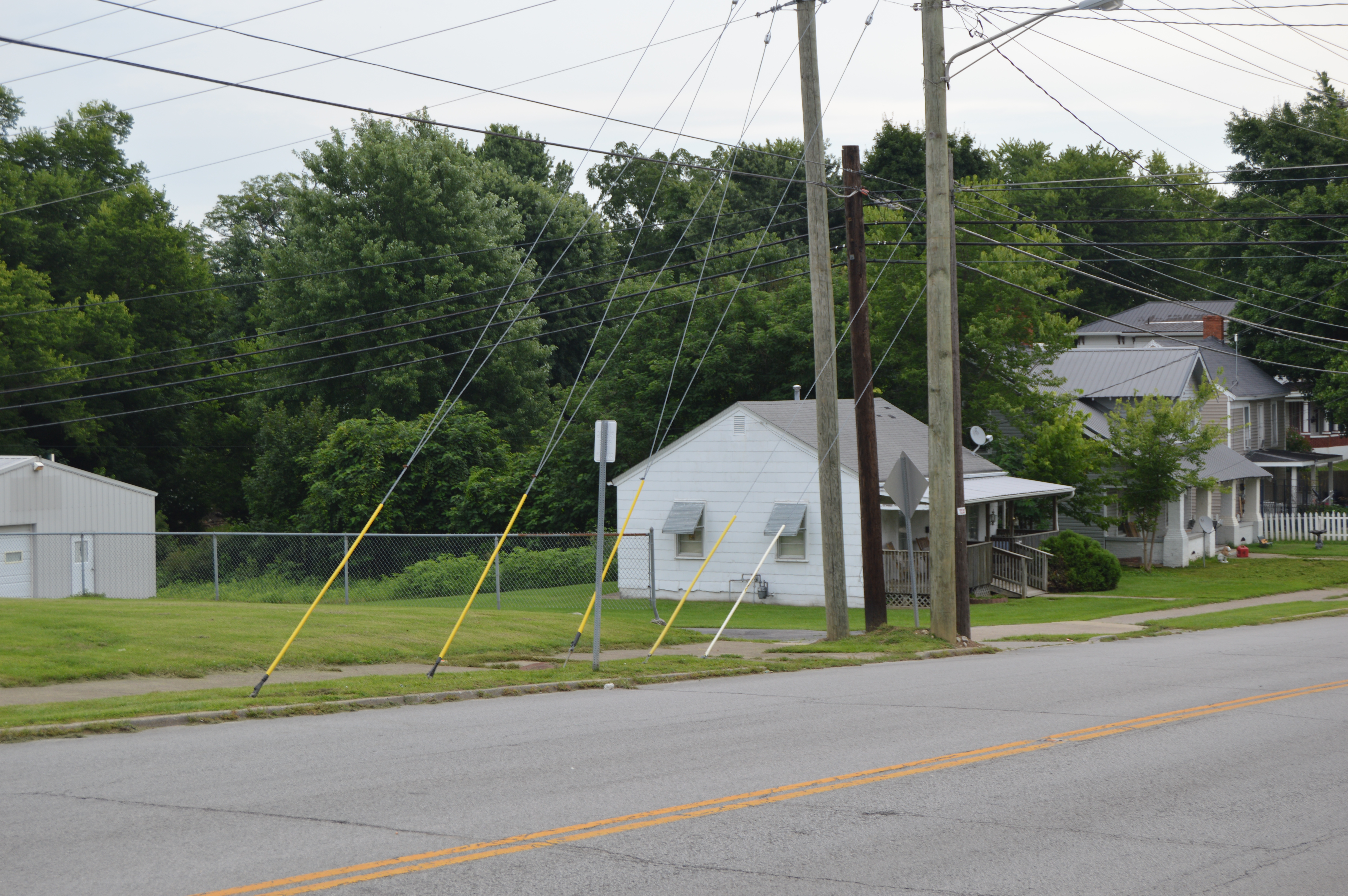 Site of the Billy Ball House, which was formerly located at 209 E. Richmond Street (Kentucky Route 52) in Lancaster, Kentucky, United States. Built in 1830, it was listed on the National Register of Historic Places in 1984, and although destroyed, it has not yet been removed from the Register.